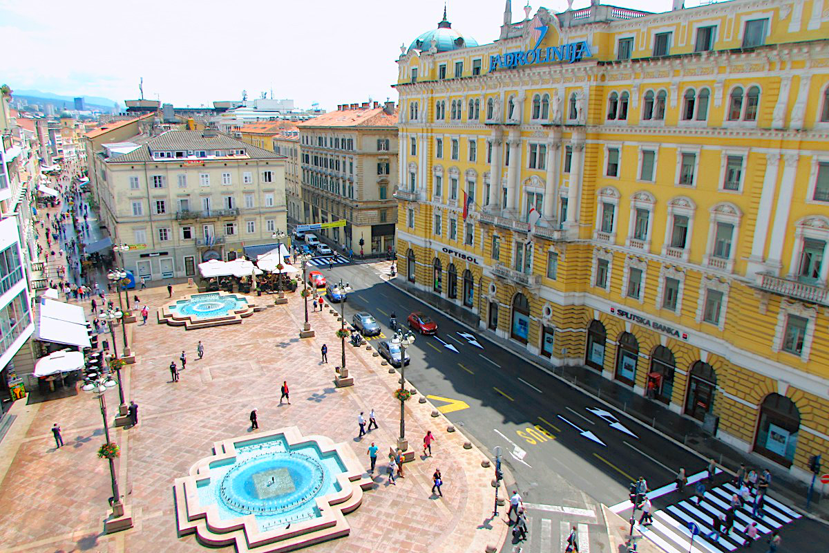 Jadranski trg u Rijeci